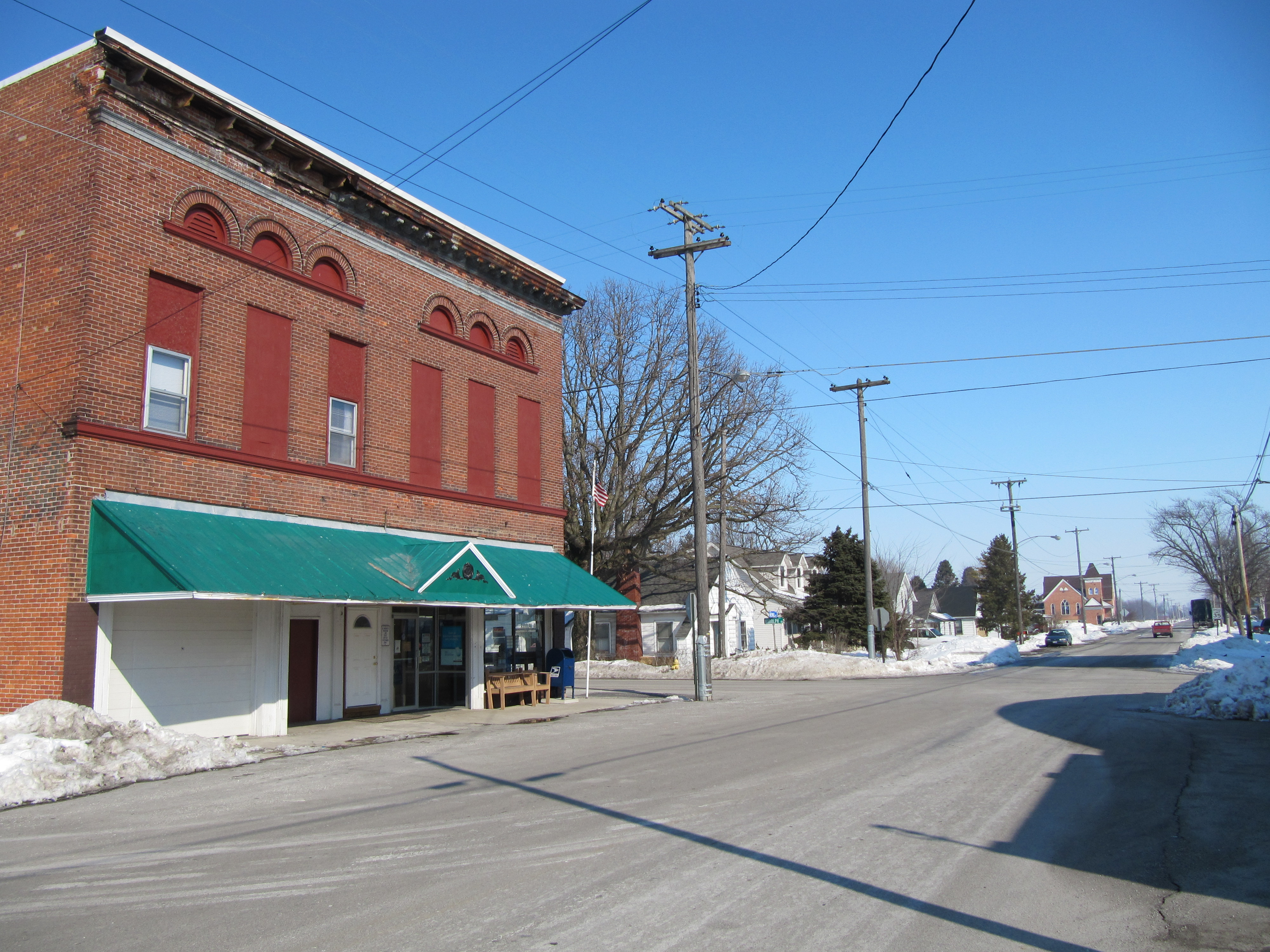 Photograph of the unincorporated community of Rudolph, Ohioen, taken at street level from Main Street, looking East toward the local office of the United States Postal Serviceen and Mermill Road.